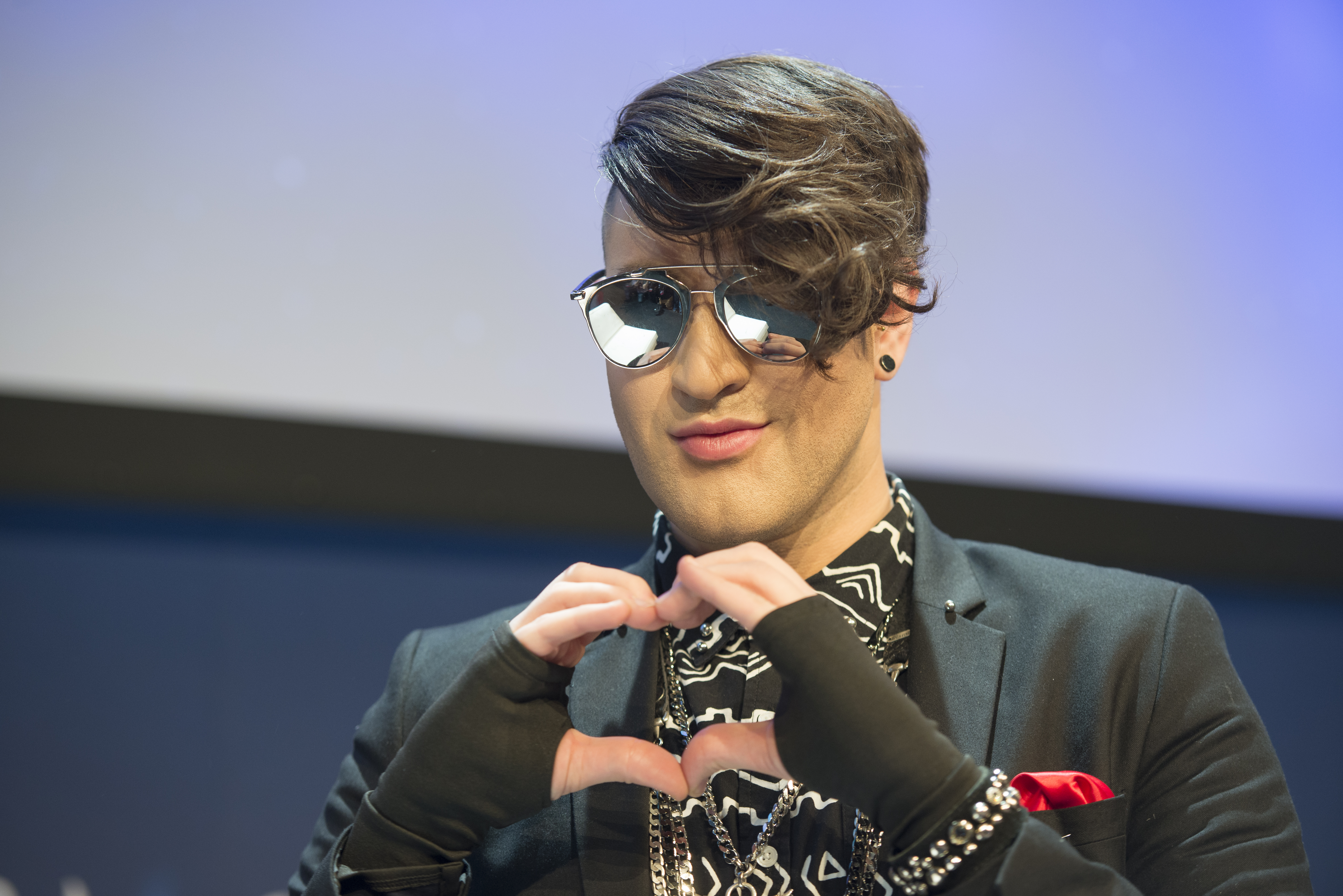 Hovi Star at a Meet & Greet during the Eurovision Song Contest 2016 in Stockholm. (Help translate this text)